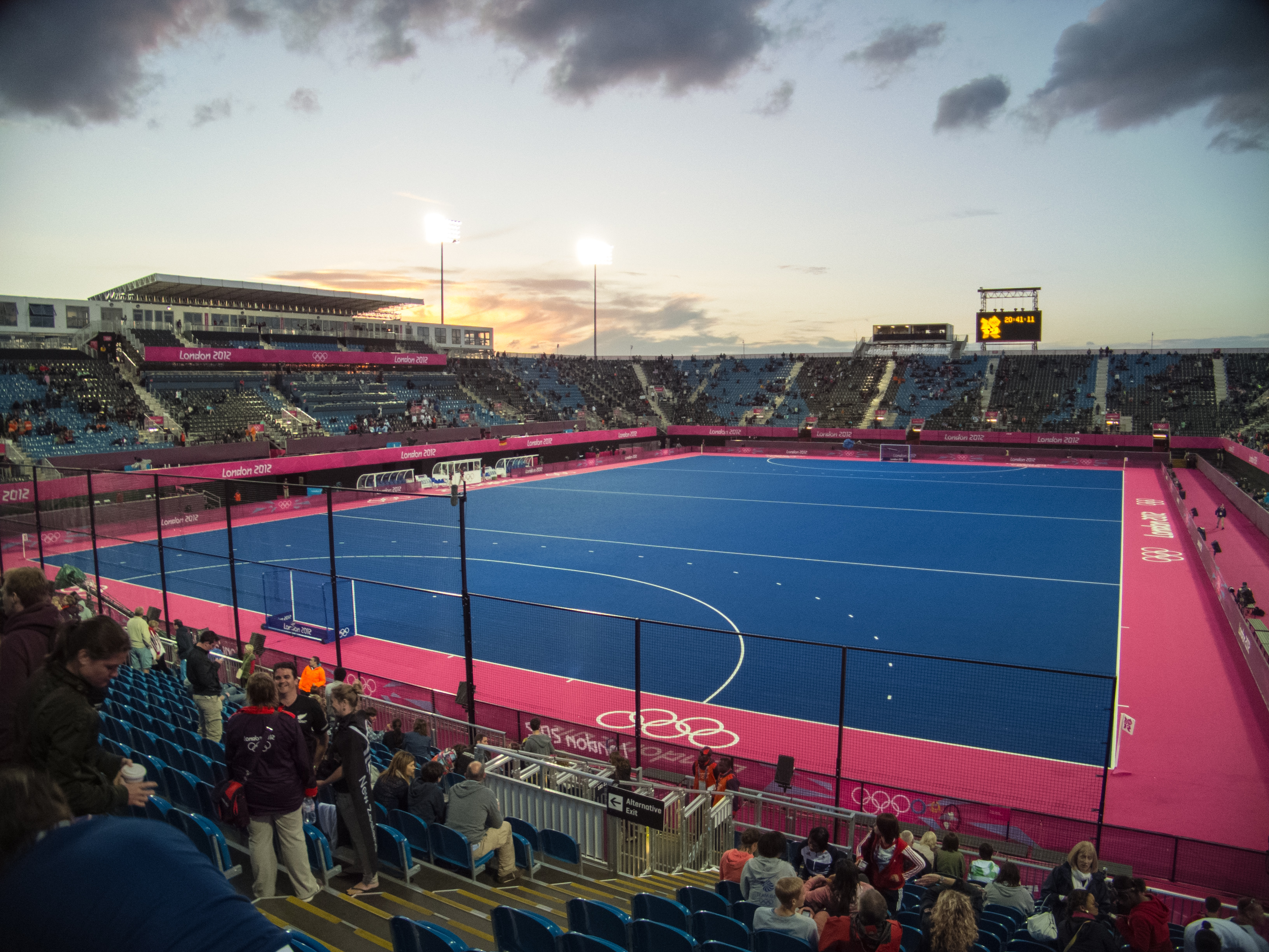 Olympic Hockey: The Riverside Arena